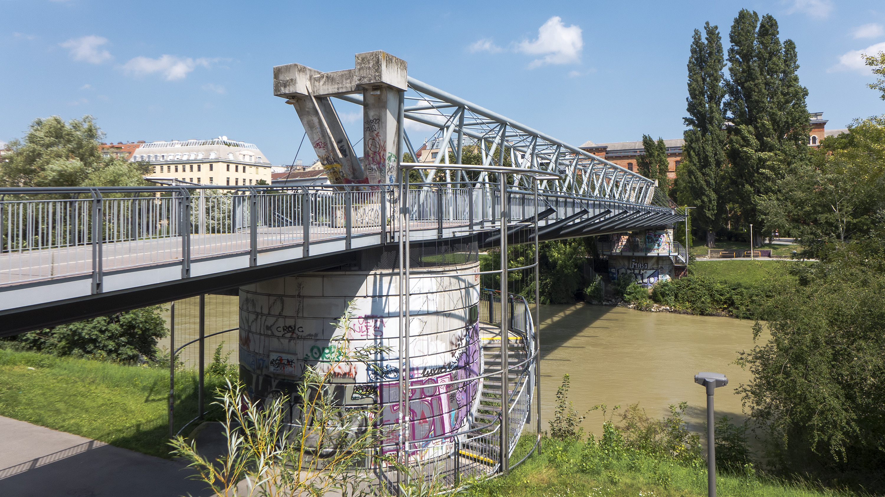 Bridge Siemens-Nixdorf-Steg in Vienna 9, looking to the east